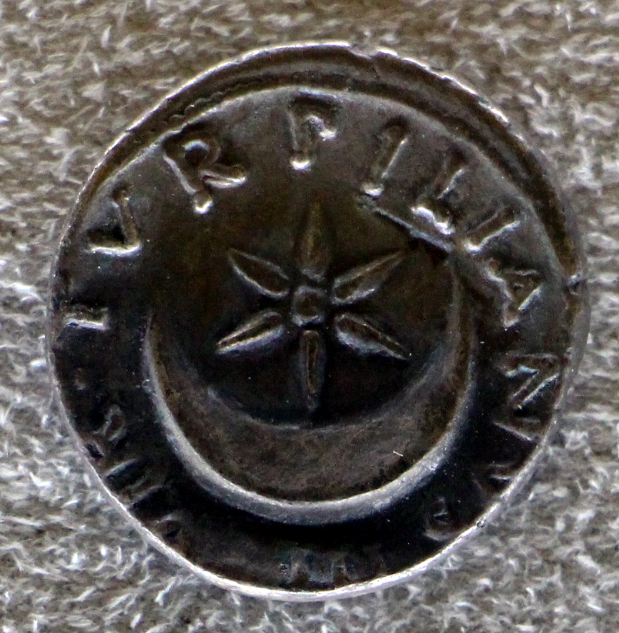 Coins in the Museo archeologico nazionale (Florence)